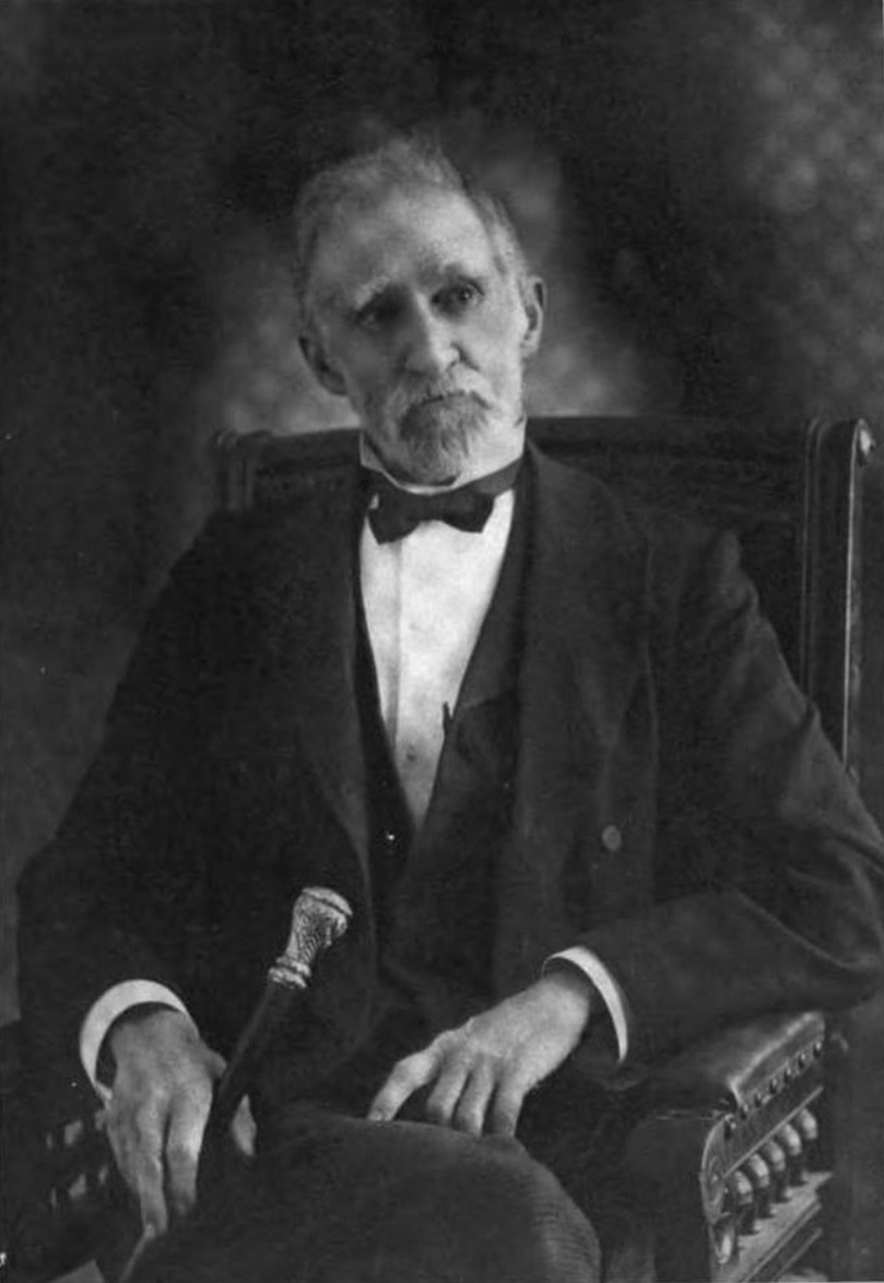 Robert S. Gould, Chief Justice of the Texas Supreme Court and professor of law at the University of Texas, memorial photograph.